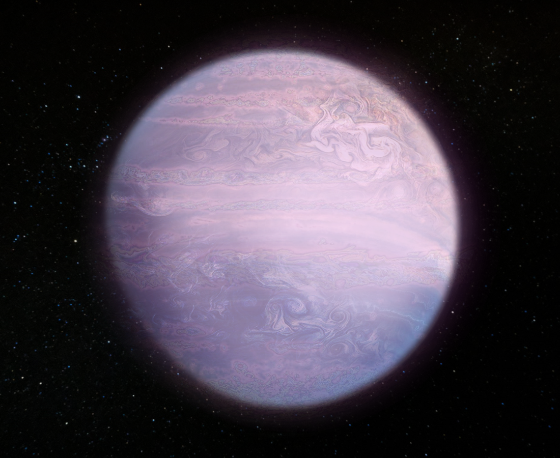 A recreation of a super-puff planet